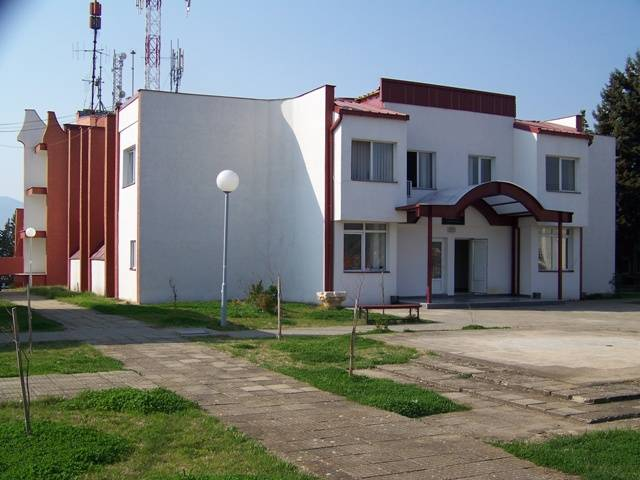 Law faculty - Kočani [1]